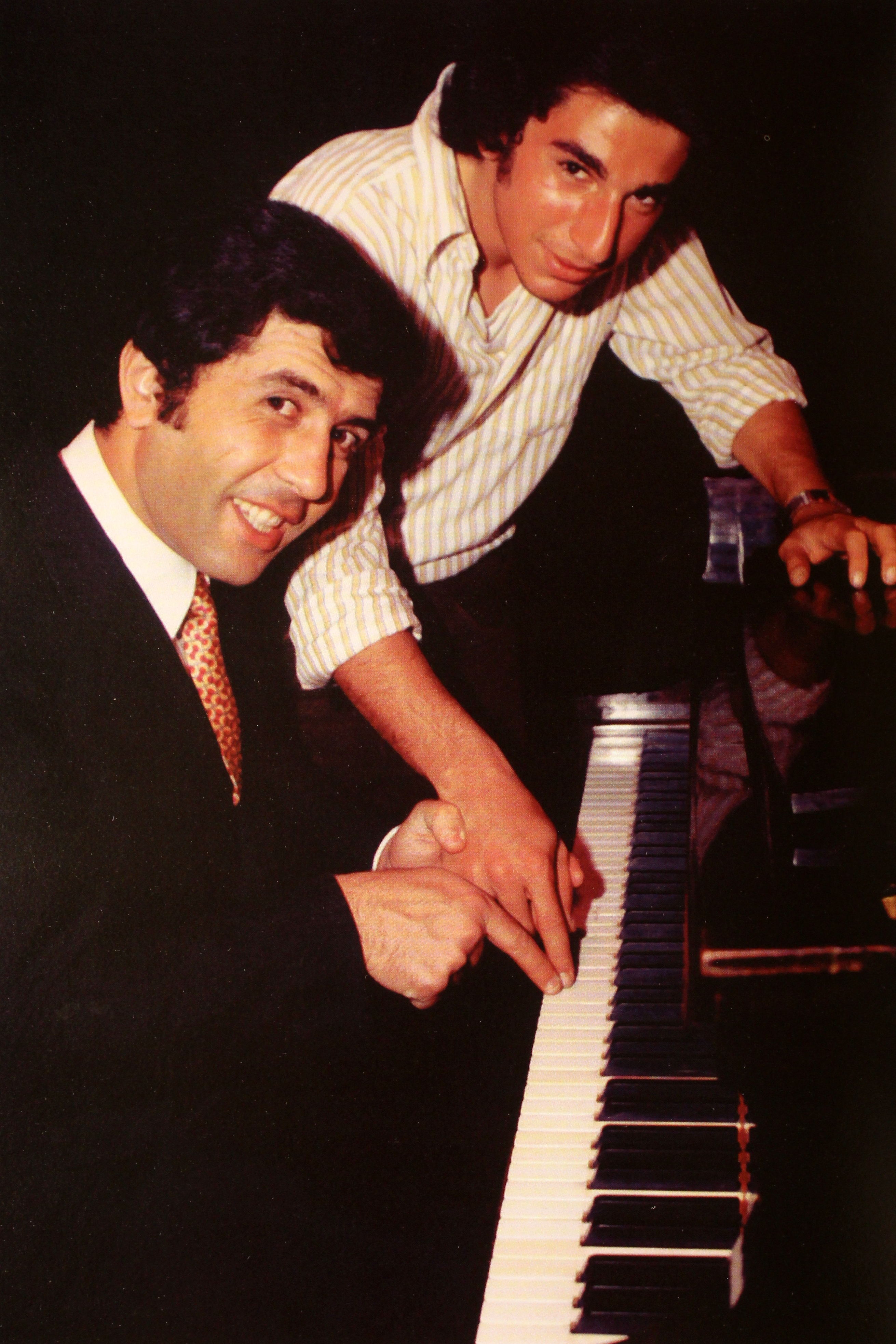 The making of this file was supported by Wikimedia Armenia.